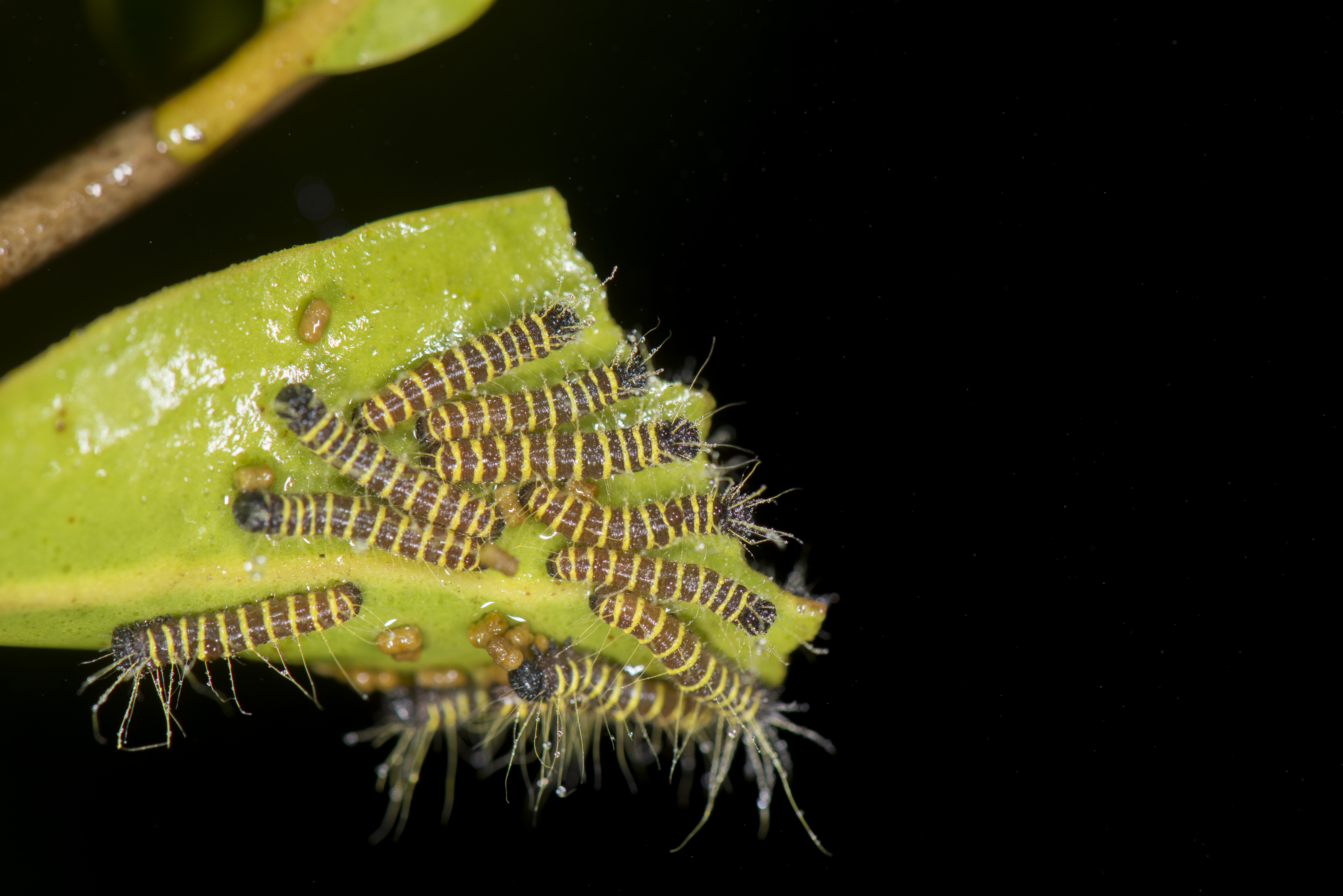 _ESH2597 Delias pasithoe